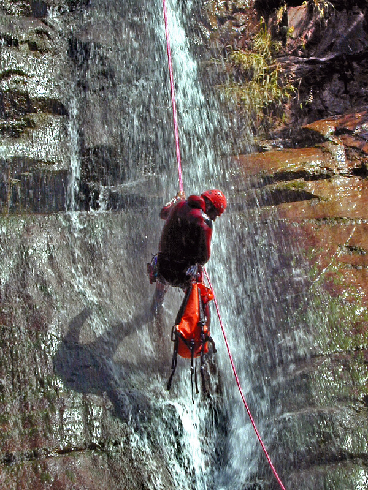 Daluis (06) Var river, Clue d'Amen -final descent